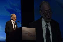 Alvin Toffler presenting his key note address at the National Conference on the Creative Economy